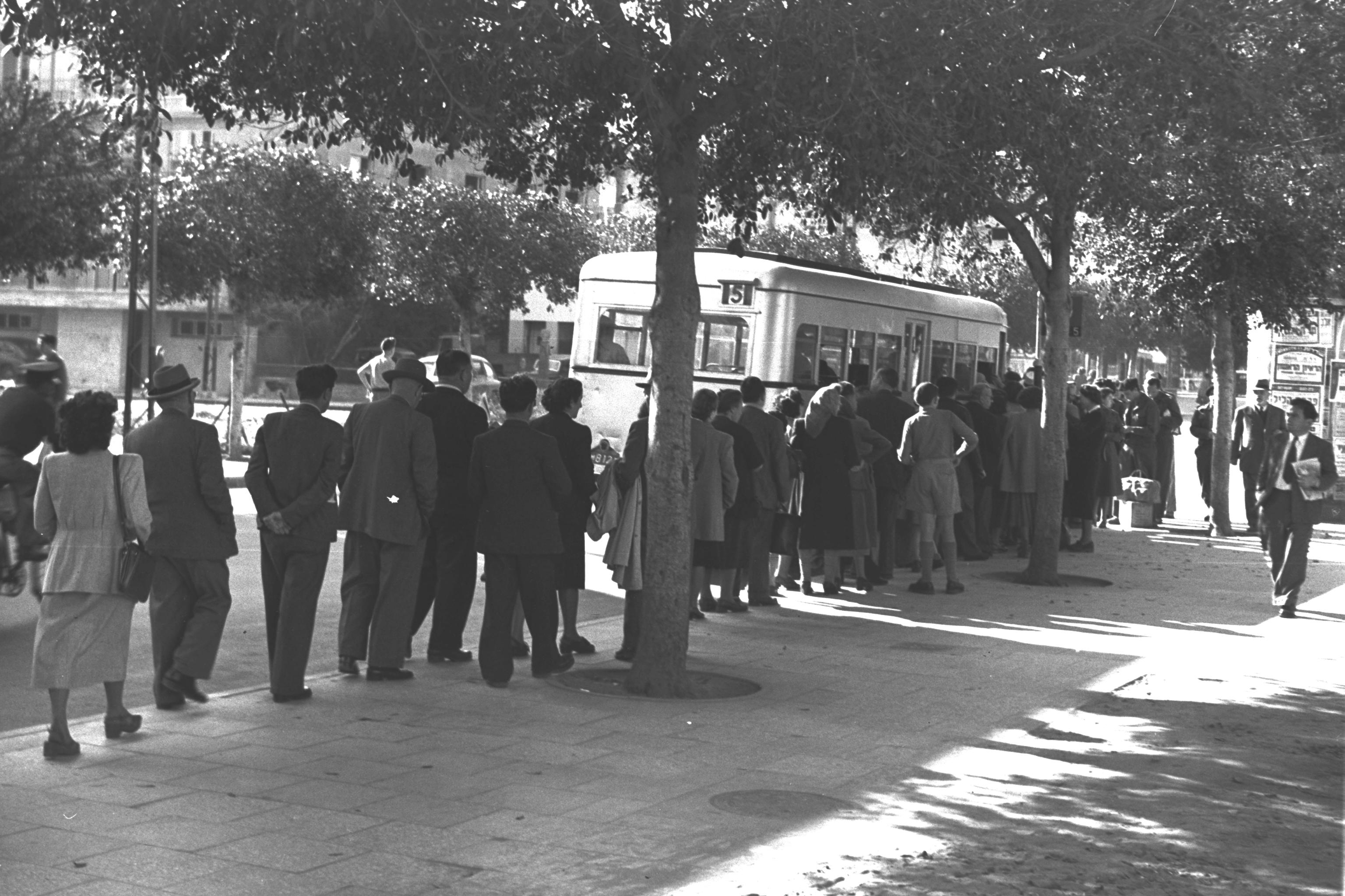 Original Description: PEOPLE STANDING IN LINE FOR THE NO. 5 BUS IN TEL AVIV.